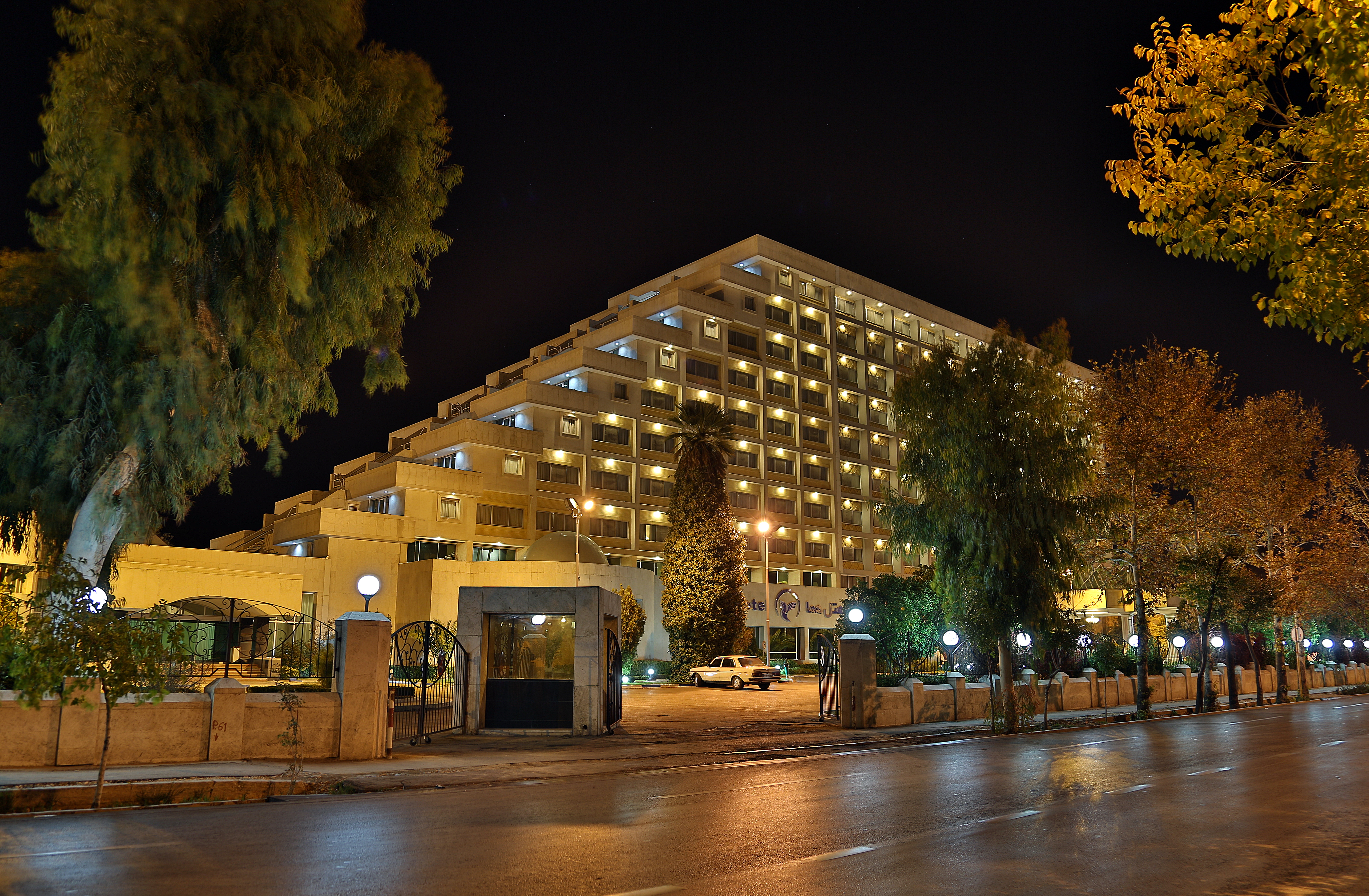 هتل هما شیراز